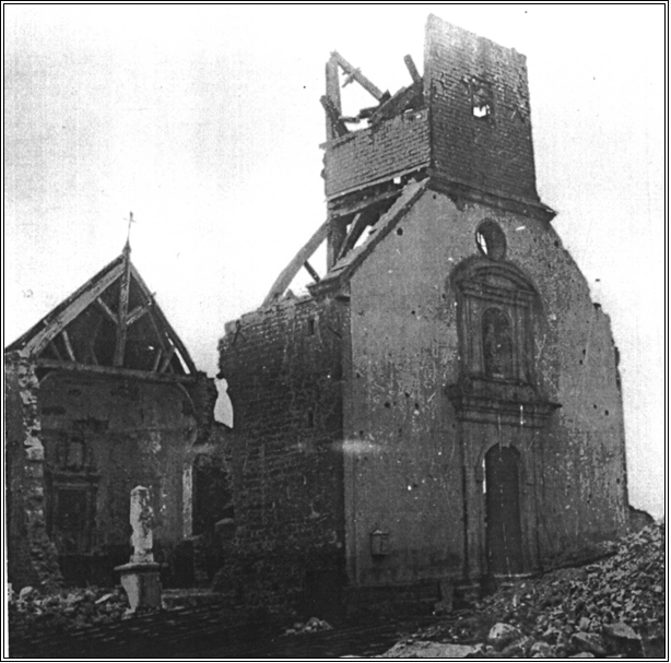 Ruins of Martincourt sur Meuse church, may 1940